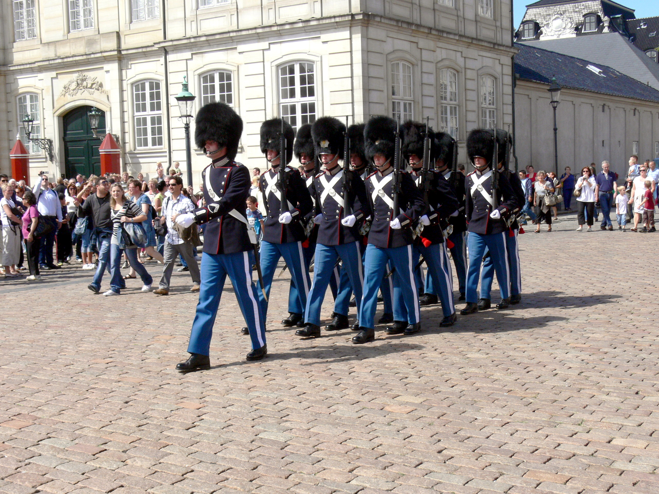 Amalienborg Palace ( Copenhagen ). Changing of the Royal Guard.